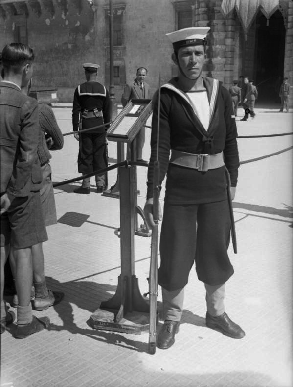 The Royal Navy during the Second World War Maltese ratings of the Royal Navy mounting guard over the George Cross as it is ceremoniously displayed in Palace Square, Valletta on the first anniversary of Malta being awarded the George Cross by His Majesty King George VI on 15 April 1942.